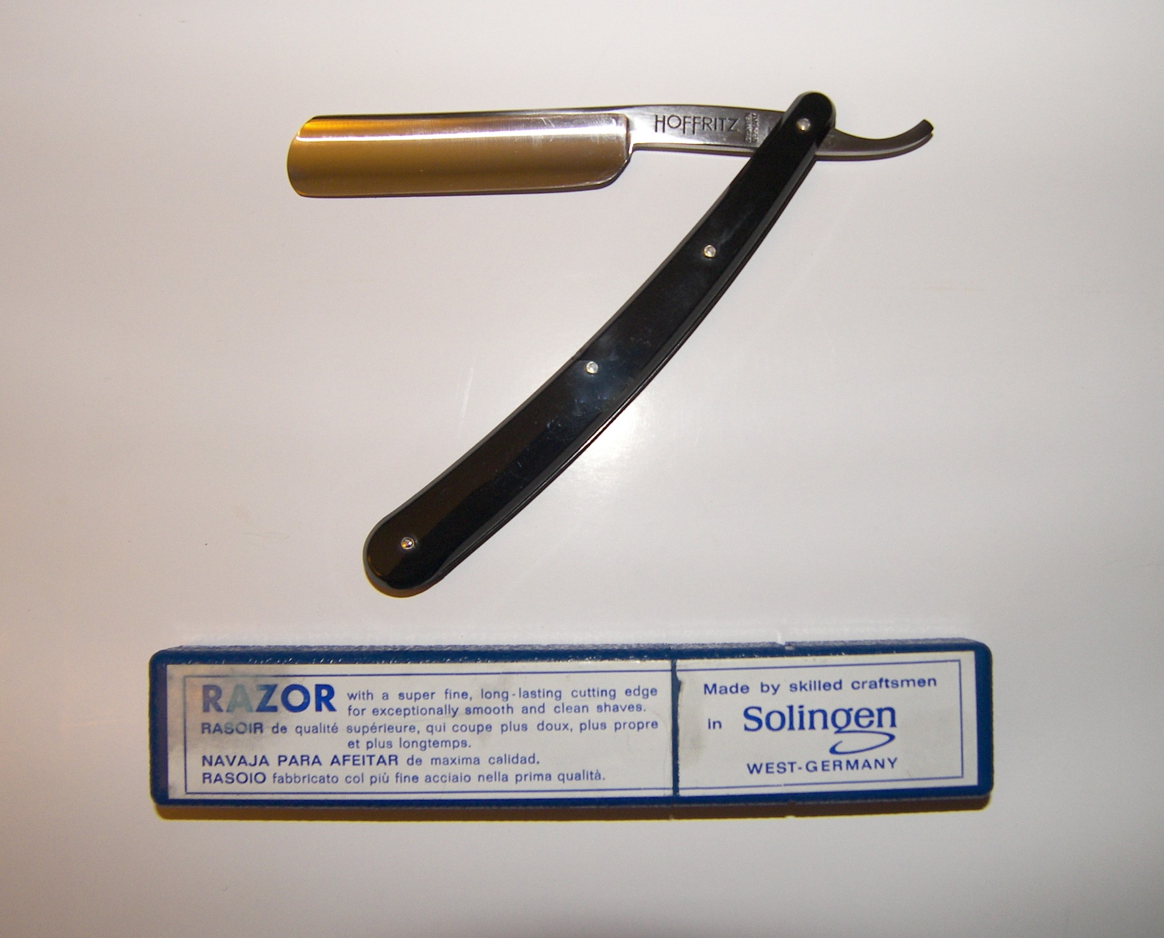 Please refer to filename above